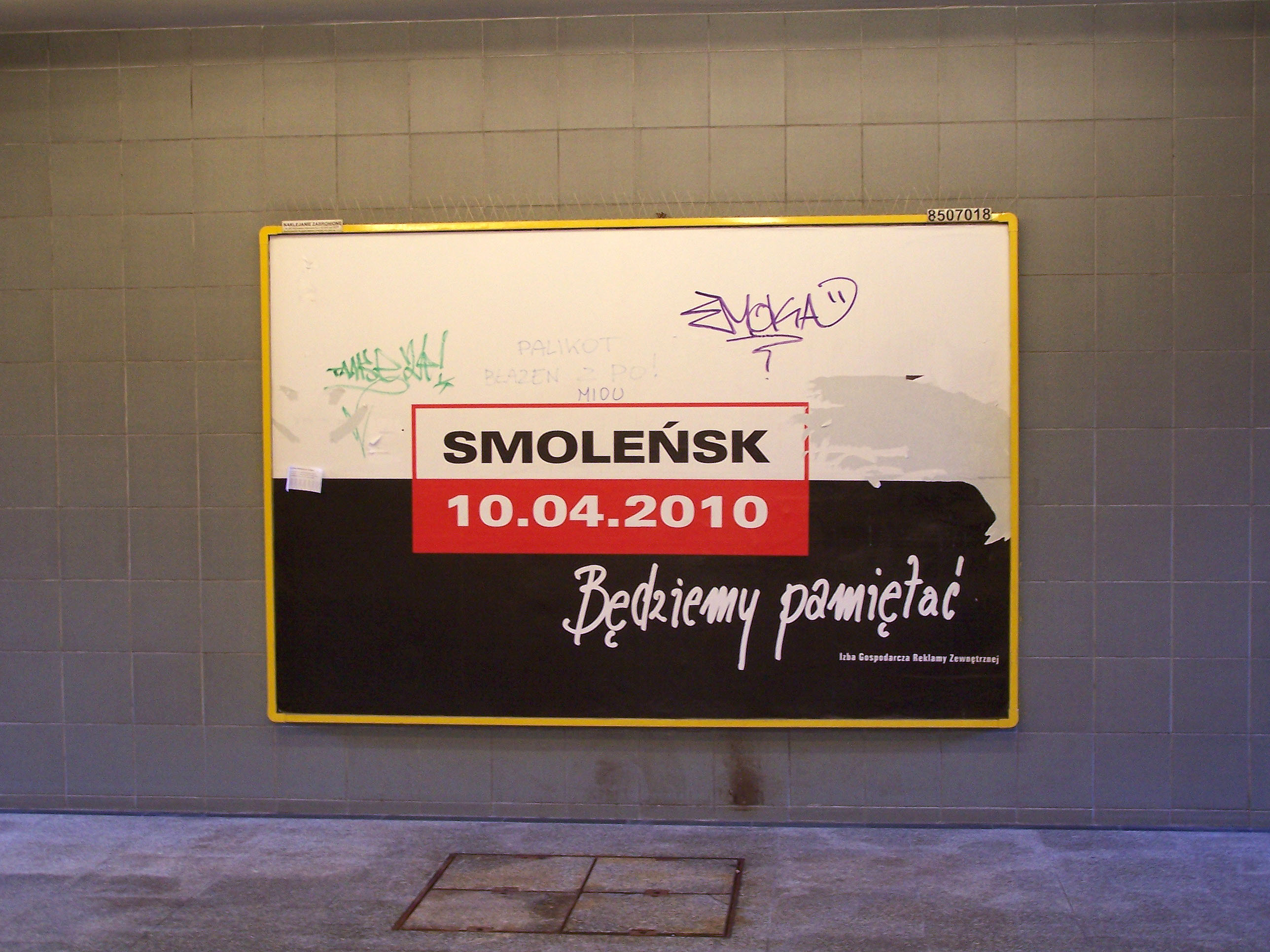 Billboard at the Wierzbno metro station in Warsaw, Poland, commemorating the victims of the Polish Air Force crash near Smolensk.